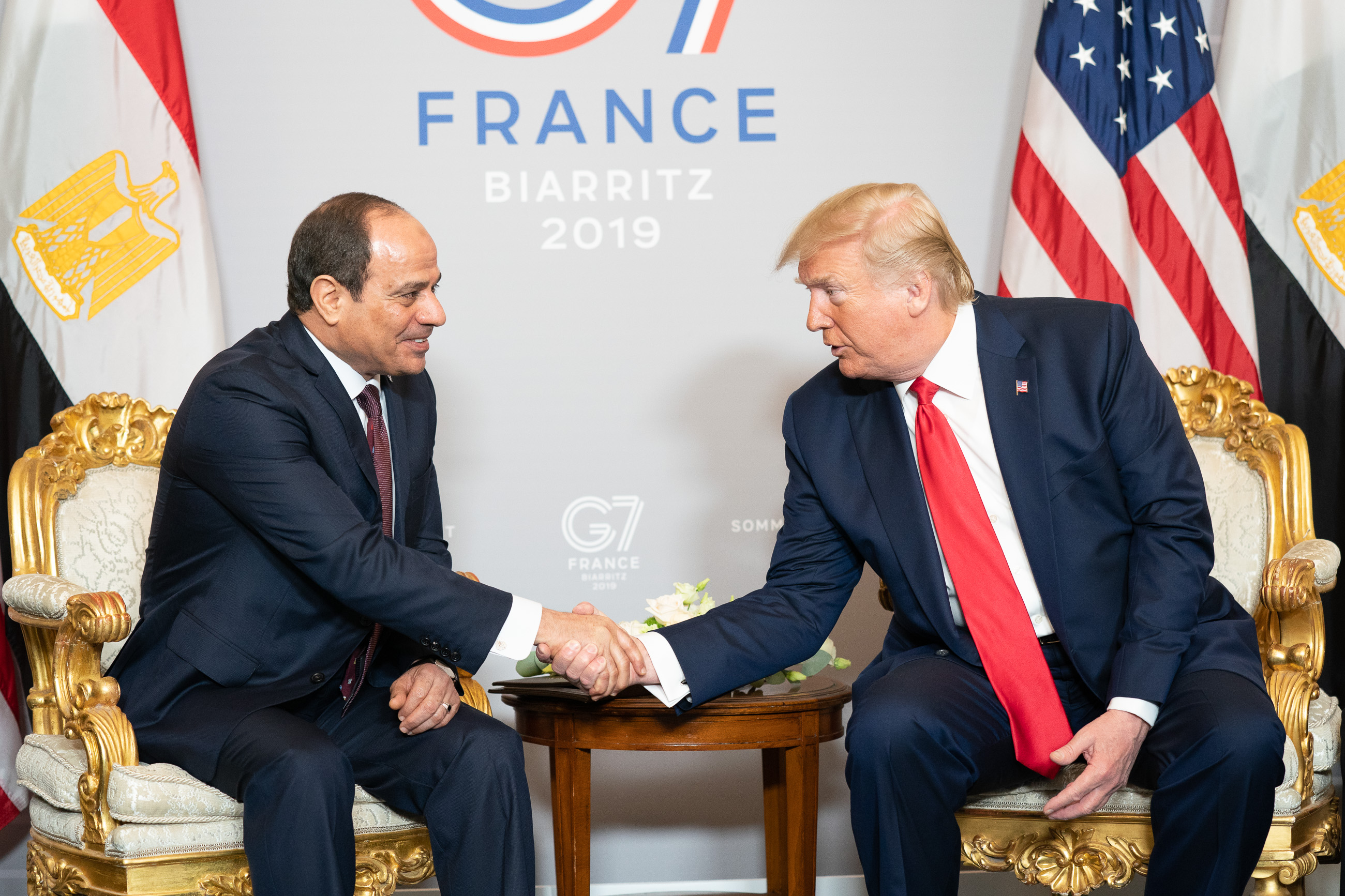 President Donald J. Trump participates in bilateral meeting with the President of the Arab Republic of Egypt Abdel Fattah el-Sisi at the Hotel du Palais Monday, Aug. 26, 2019, in Biarritz, France. (Official White House Photo by Shealah Craighead)